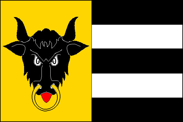 Municipal flag of Bobrová market town, Žďár nad Sázavou District, Czech Republic.